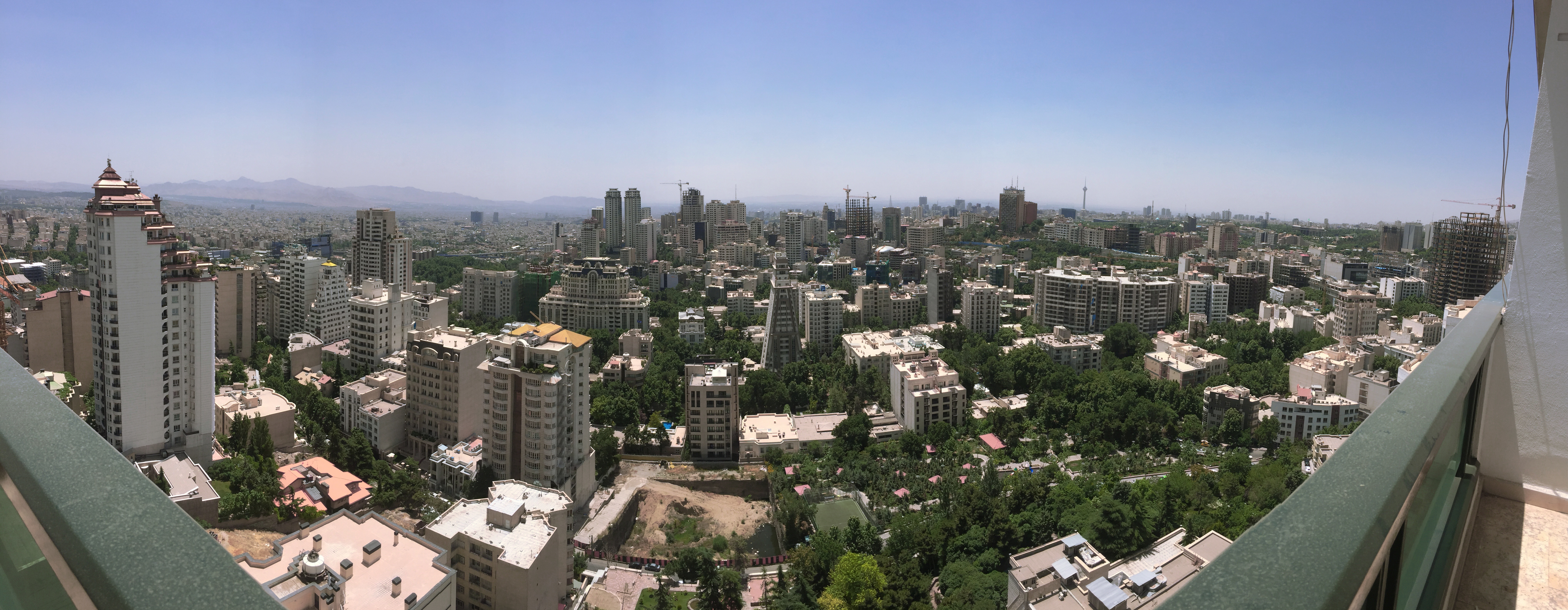 Tehran Panoramic View